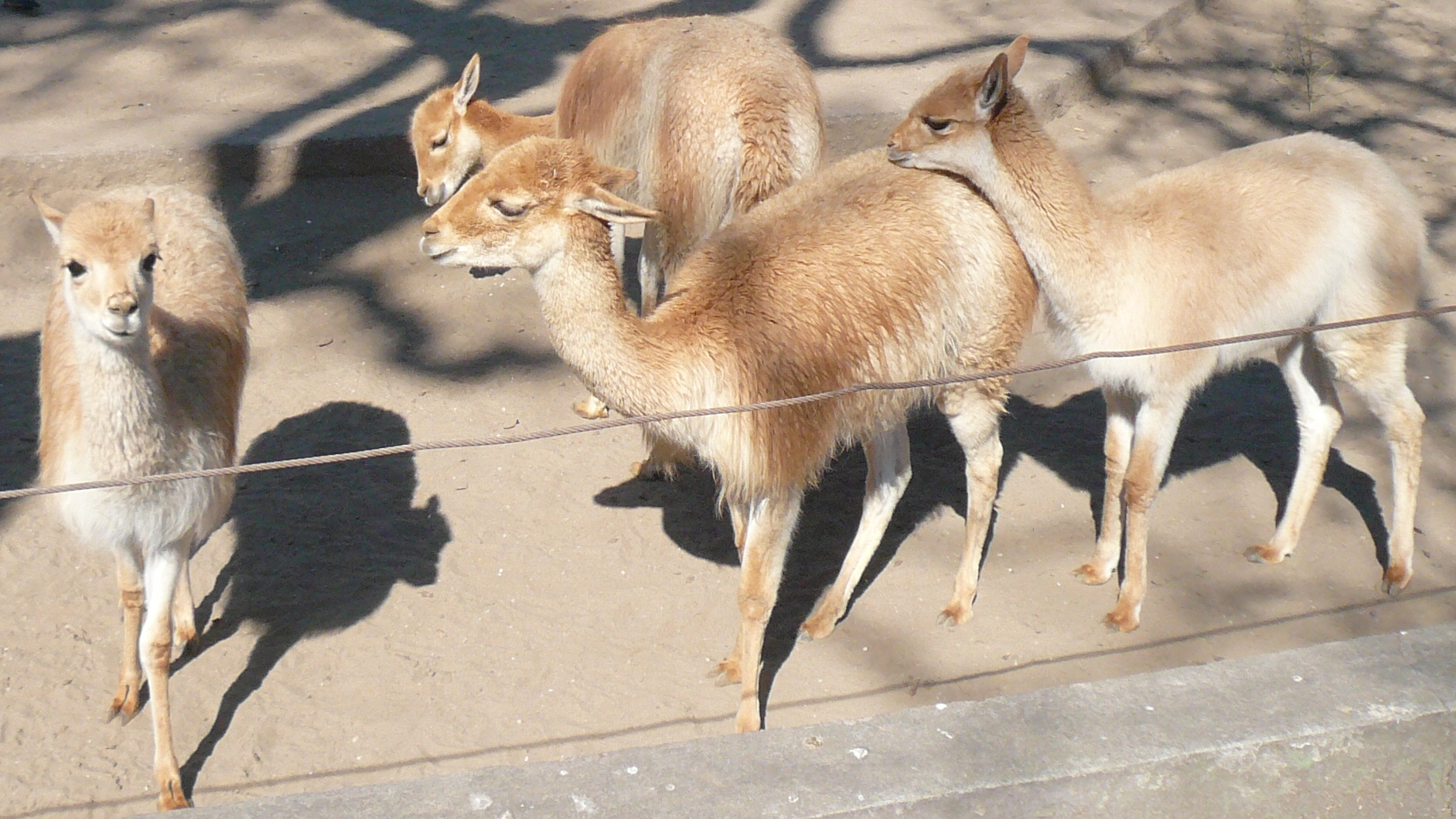 Vicuña